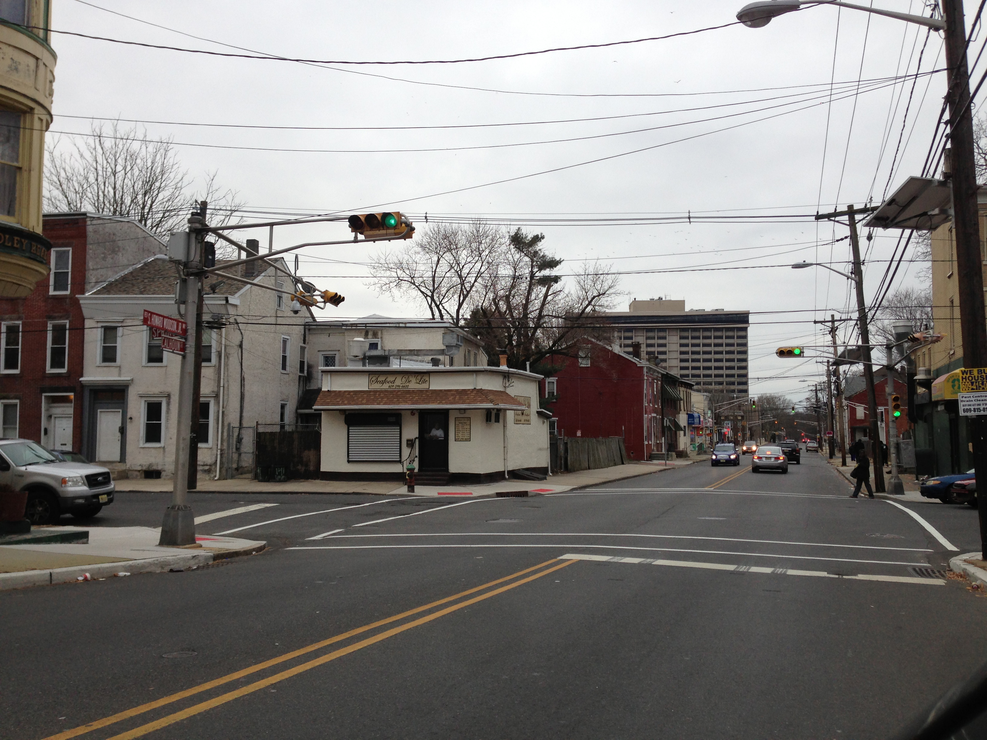 Horizontally-mounted traffic lights at the intersection of Calhoun Street (Mercer County Route 653) and Spring Street in Trenton, New Jersey